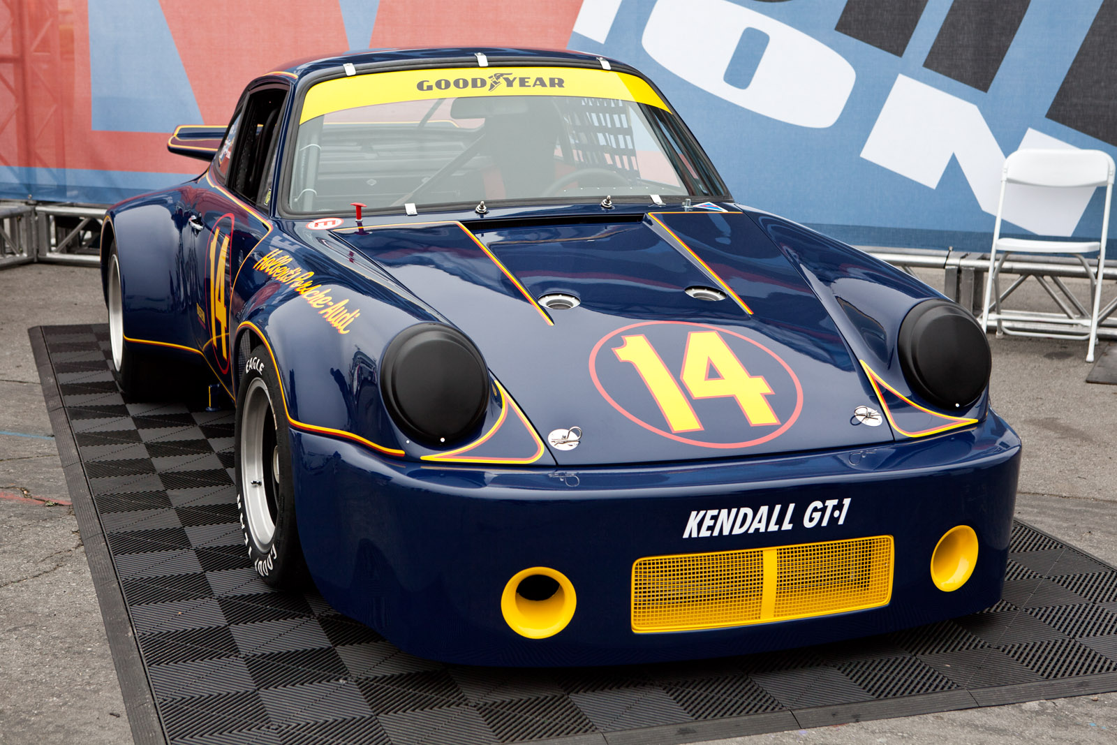 The 1974/1975 Porsche 911 Carrera RSR (#14) from Al Holbert at the Mazda Raceway Laguna Seca during the Porsche Rennsport Reunion IV.Porsche Rennsport Reunion IV